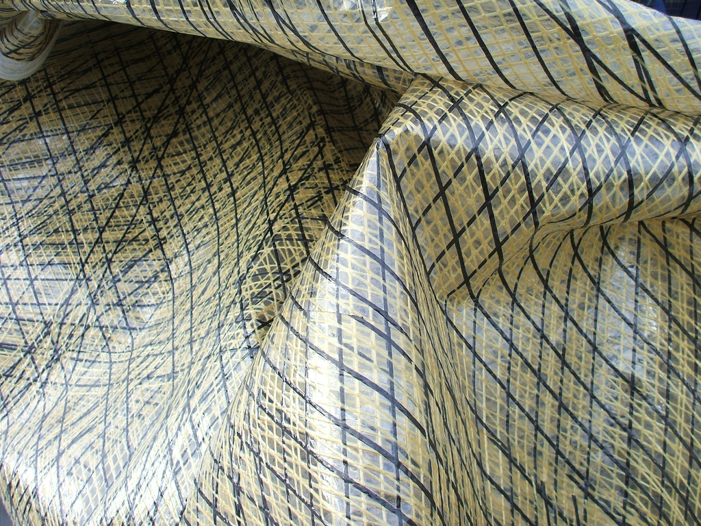 Laminate sail with Kevlar and Carbon fibres